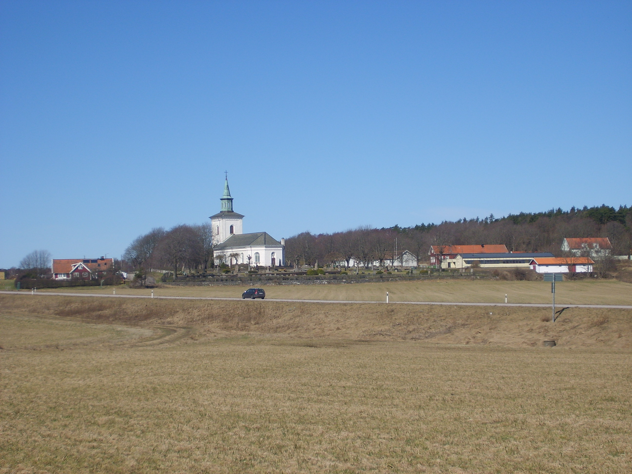 A view of Skrea village in Sweden, with a church (Skrea kyrka) in the middle.